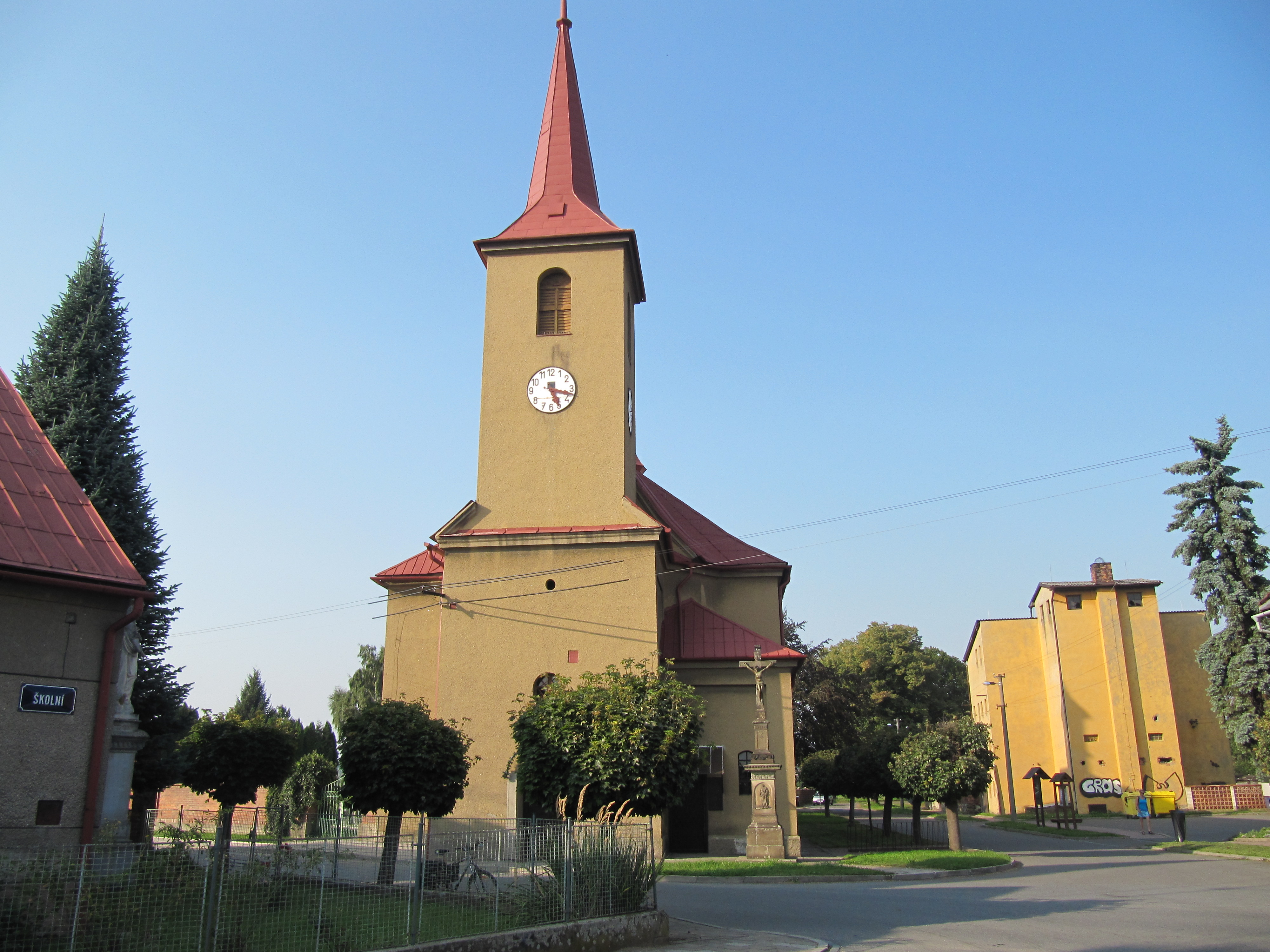 Prosenice, Czech Republic, Přerov District. Church of St. John the Baptist and St. Anthony of Padua from 1787. This photograph was taken within the scope of the third year of the 'Czech Municipalities Photographs' grant.